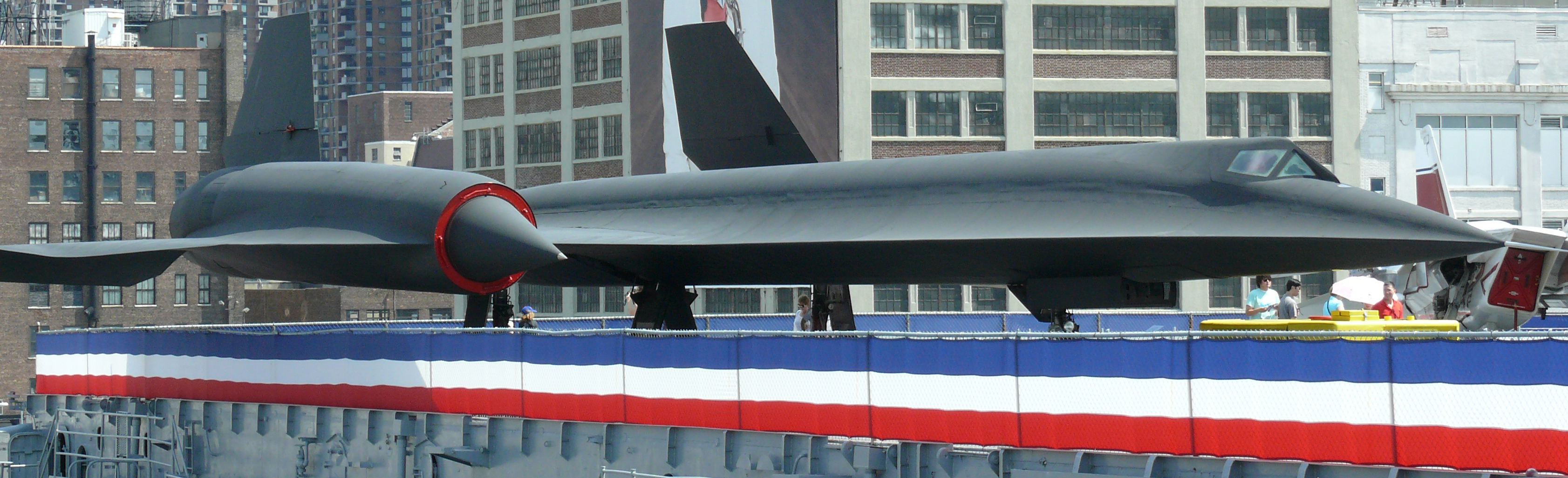 Lockheed A-12 on board the Intrepid The Lockheed A-12 was a reconnaissance aircraft built for the Central Intelligence Agency and was the precursor to both the U.S. Air Force YF-12 interceptor and the famous SR-71 Blackbird reconnaissance aircraft. This A-12 served as a radar-test example early in 1962 at the secret base Area 51.